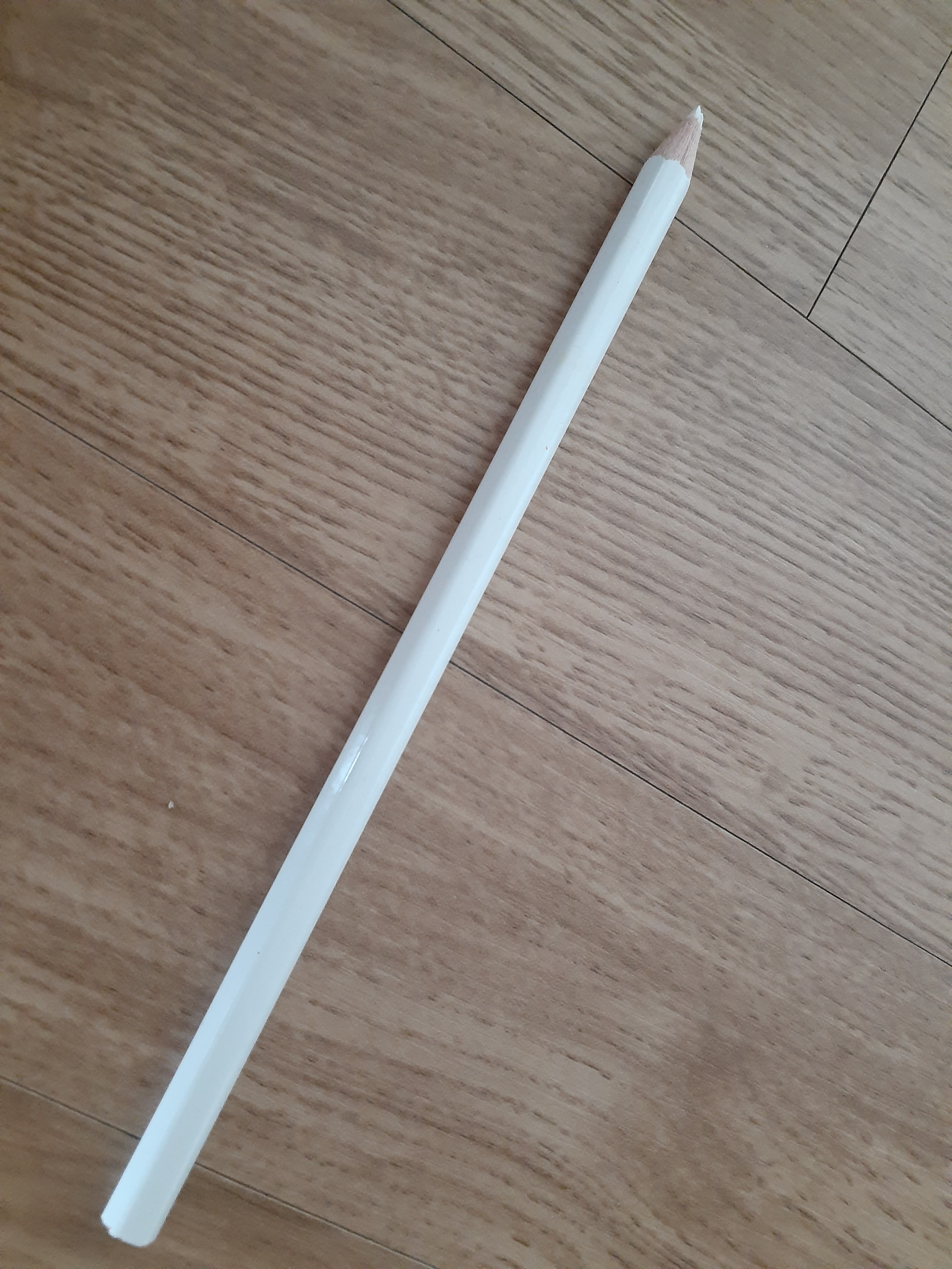 ᆢㅂㄴㅅㄷ